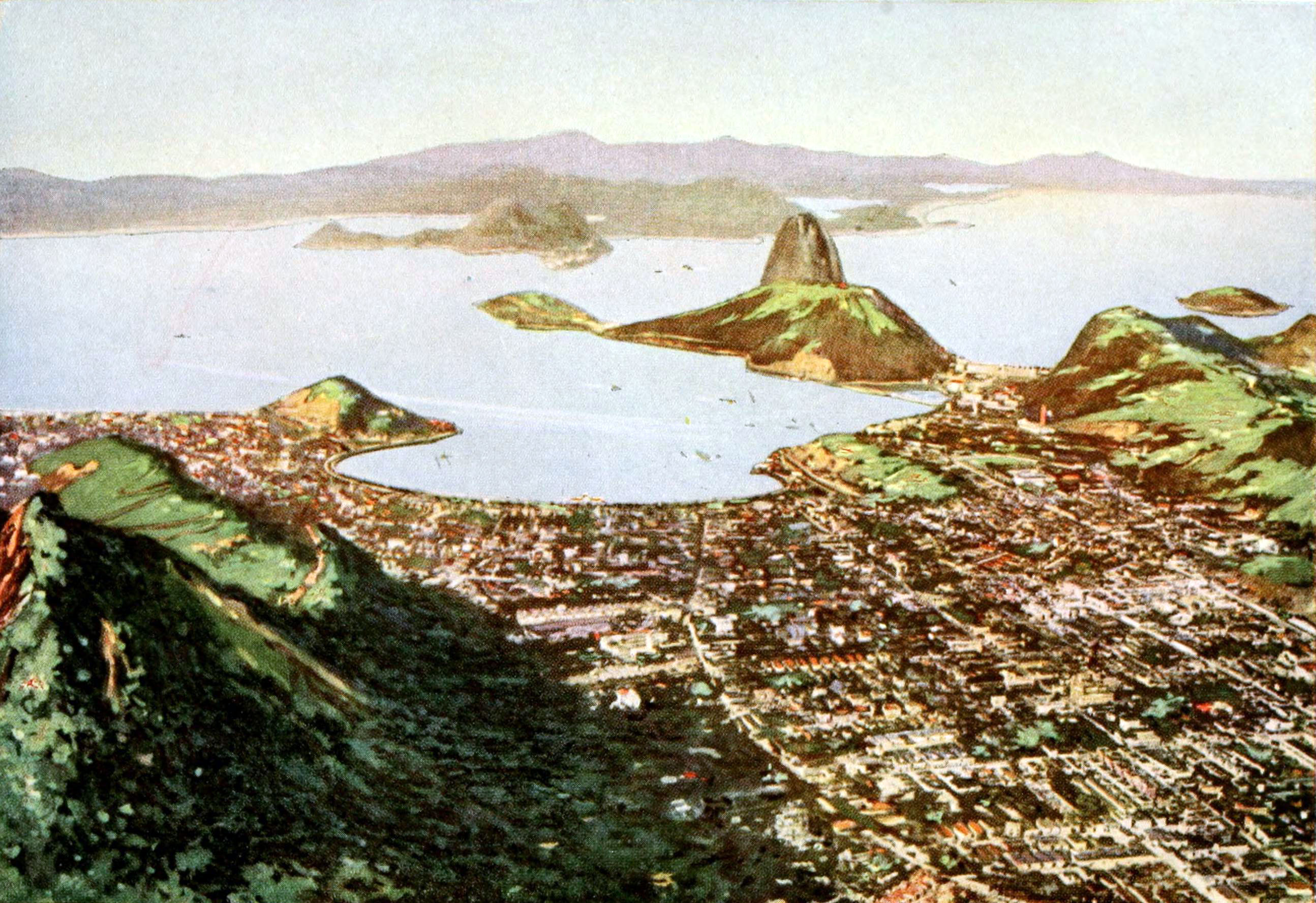 Color photograph of Rio de Janeiro, Brazil, looking toward the bay.